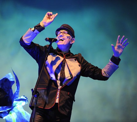 Ciro Pessoa performing "Em dia com a rebeldia" at the Auditório Ibirapuera, São Paulo, Brazil in 1 May 2010.